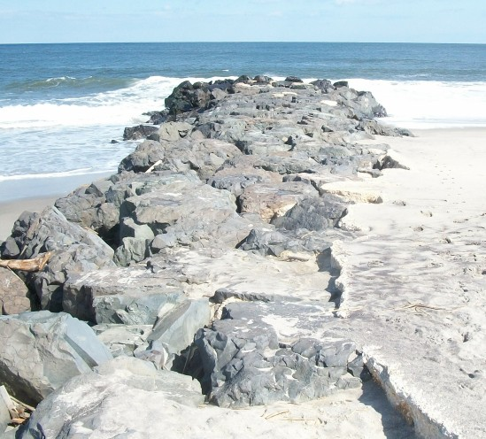 Jetties made of rock were built to prevent sand erosion. Currents from the Atlantic Ocean push sand northwards; jetties such as this one attempt to block the erosion of sand to keep beaches from washing away.